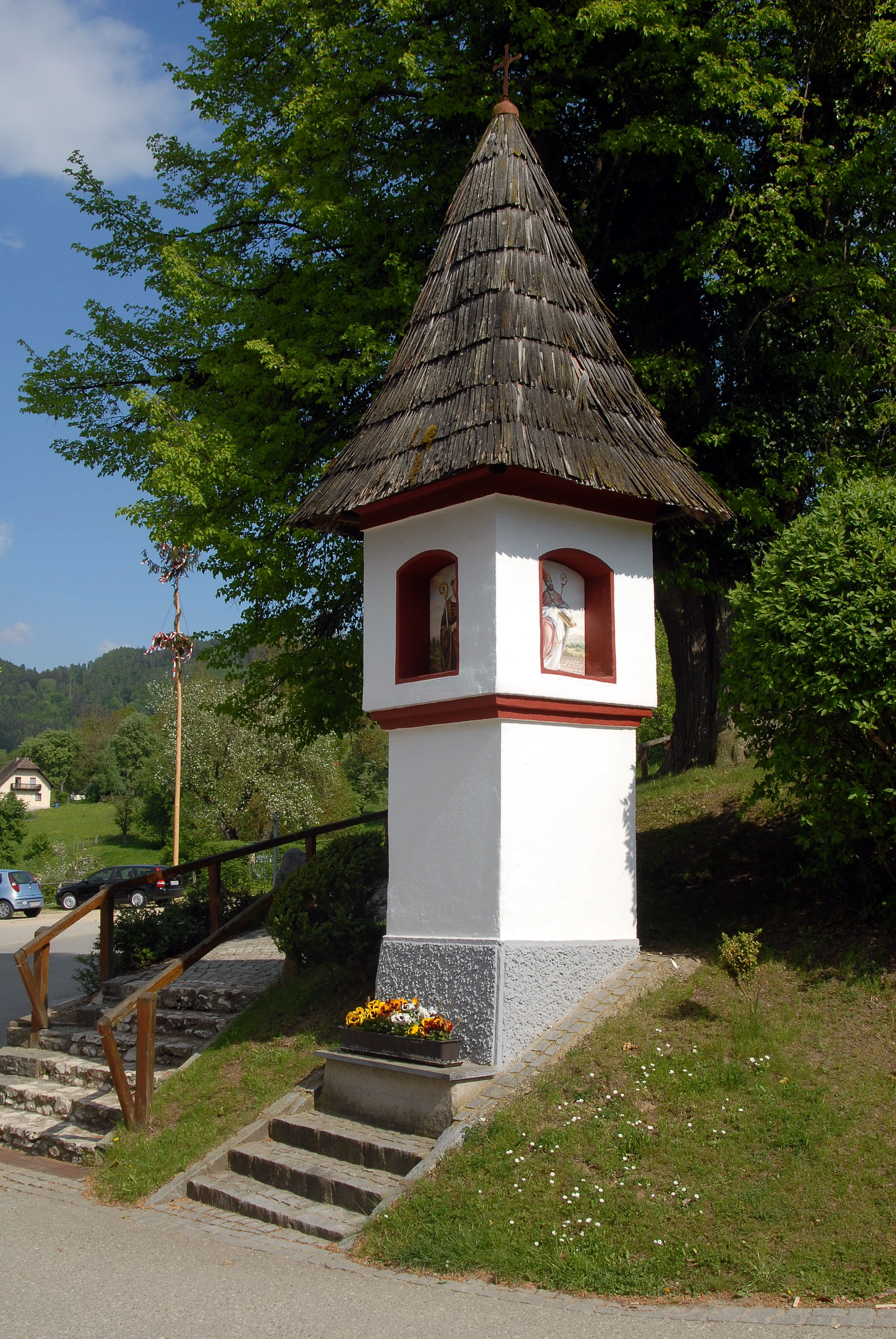 Wayside shrine at Saint Martin in the Granitz valley in the community Saint Paul im Lavanttal, district Wolfsberg, Carinthia, Austria